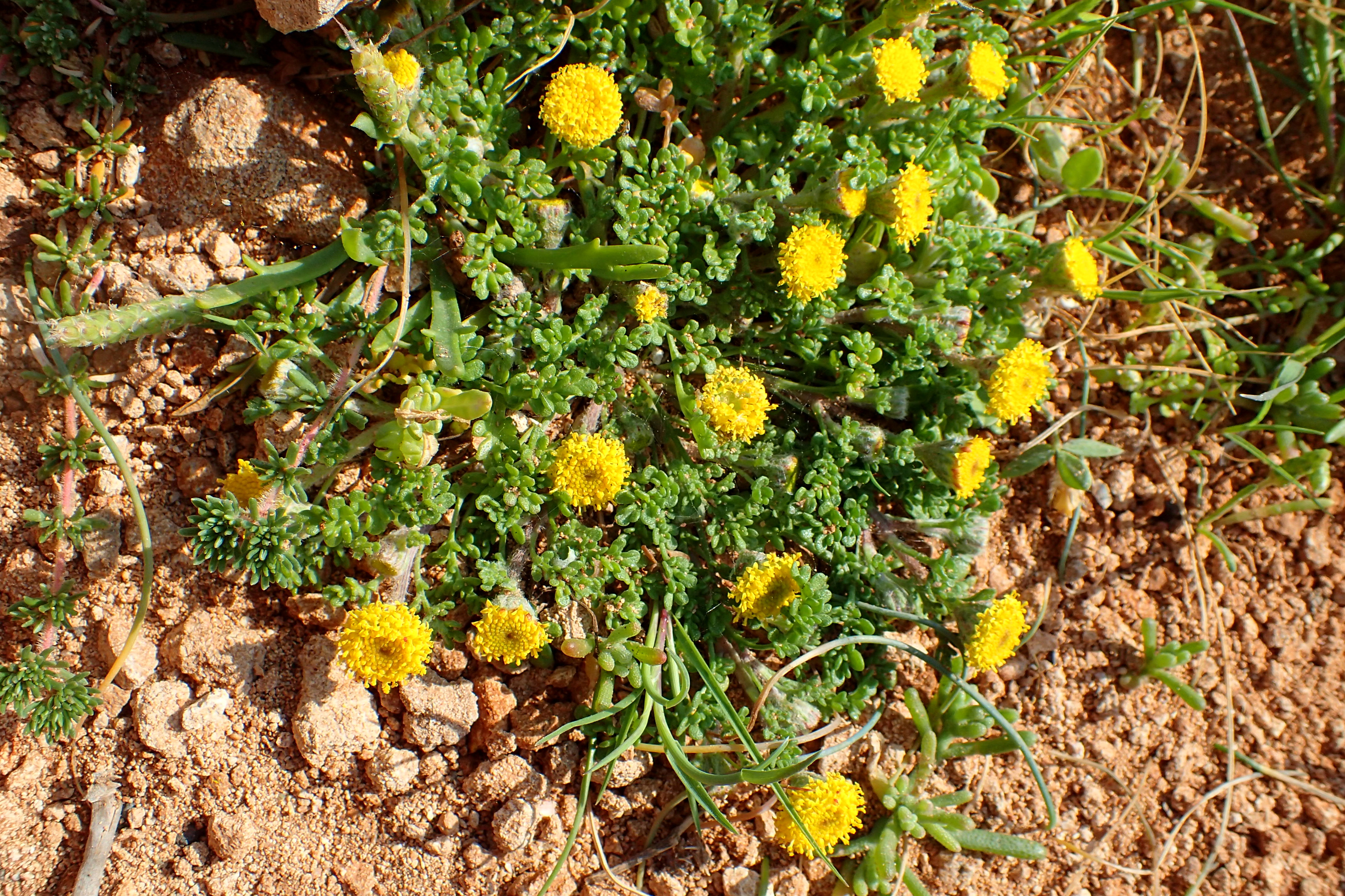 Anthemis rigida on Kavo Gkreko, Cyprus